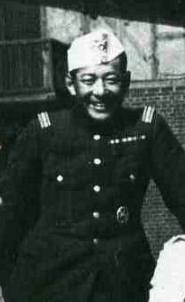 Nishi Takeichi. Gold medalist in equestrian Show Jumping individual at the 1932 Los Angeles Olympics. Tank commander in the Imperial Japanese Army. Died in the Battle of Iwo Jima.